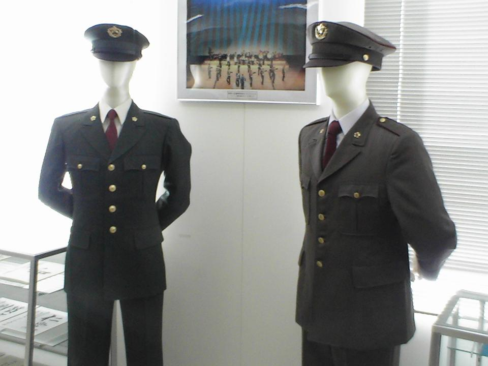 Student Uniform of Youth Technical School